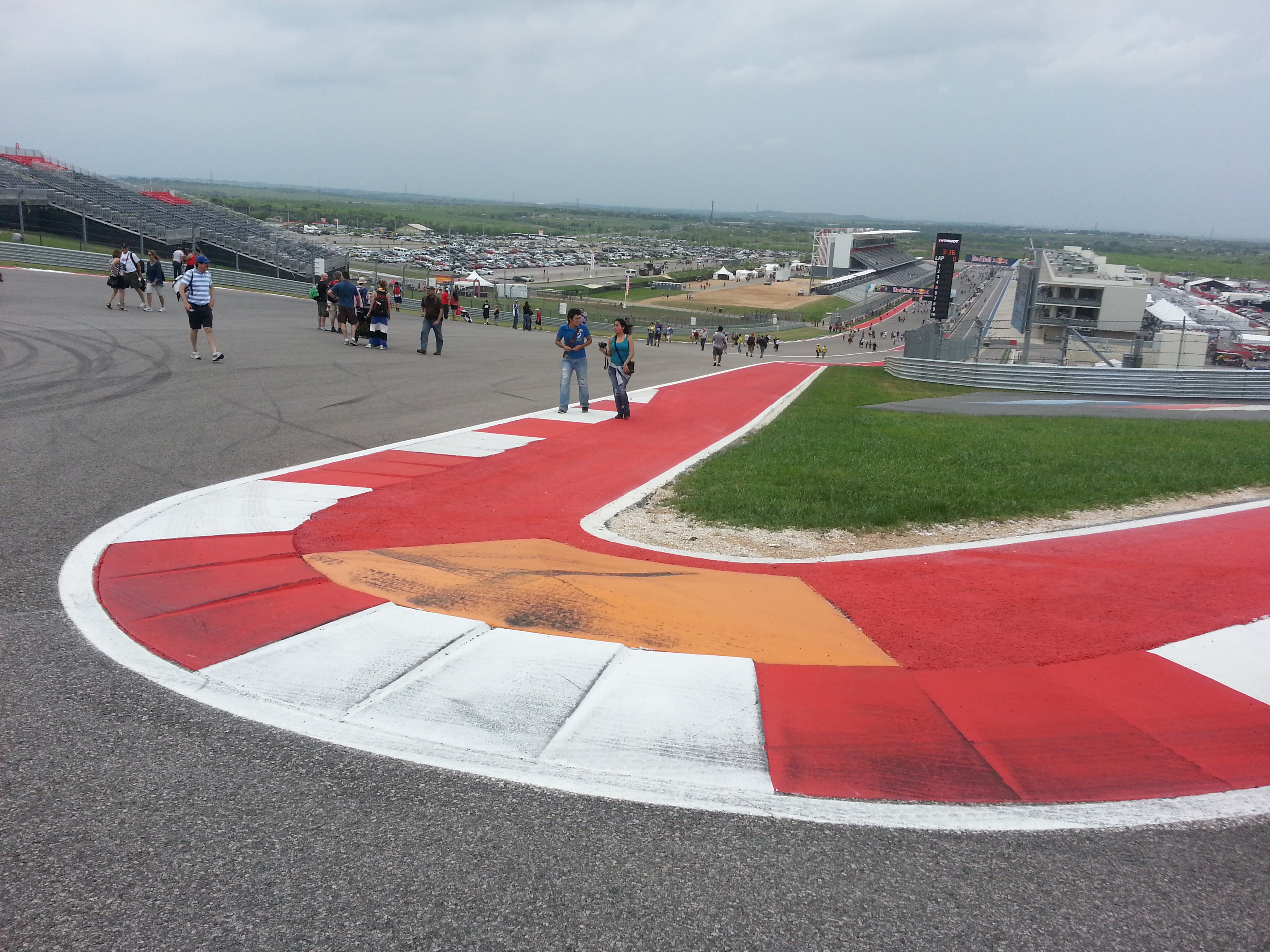 View of the main straight of the Circuit of Americas, Austin TX. View from turn 1. Picture taken after the 2014 MotoGP race, during the public track invasion.